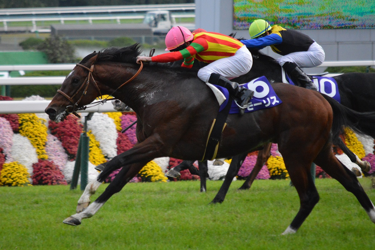 Japanese race horse Maurice at Kyoto racecourse. Kyoto (JPN) 22 Nov 2015Mile Championship (Grade 1) (3yo+) (Turf) 1m Firm RankHorse NameOddsAgeWgtJockeyTrainer1stMaurice (JPN)47/10C49-0Ryan MooreNoriyuki Hori2ndFiero (JPN)31/10H69-0Mirco DemuroHideaki FujiwaraOthers are omitted. (18 horses entered in a race.)